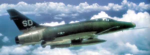 A North American F-100D Super Sabre (s/n 56-3311) of the 306th Tactical Fighter Squadron, 31st Tactical Fighter Wing, based at Tuy Hoa Air Base, South Vietnam, in the late 1960s. This aircraft was retired to the MASDC on 10 August 1979 as FE0579.